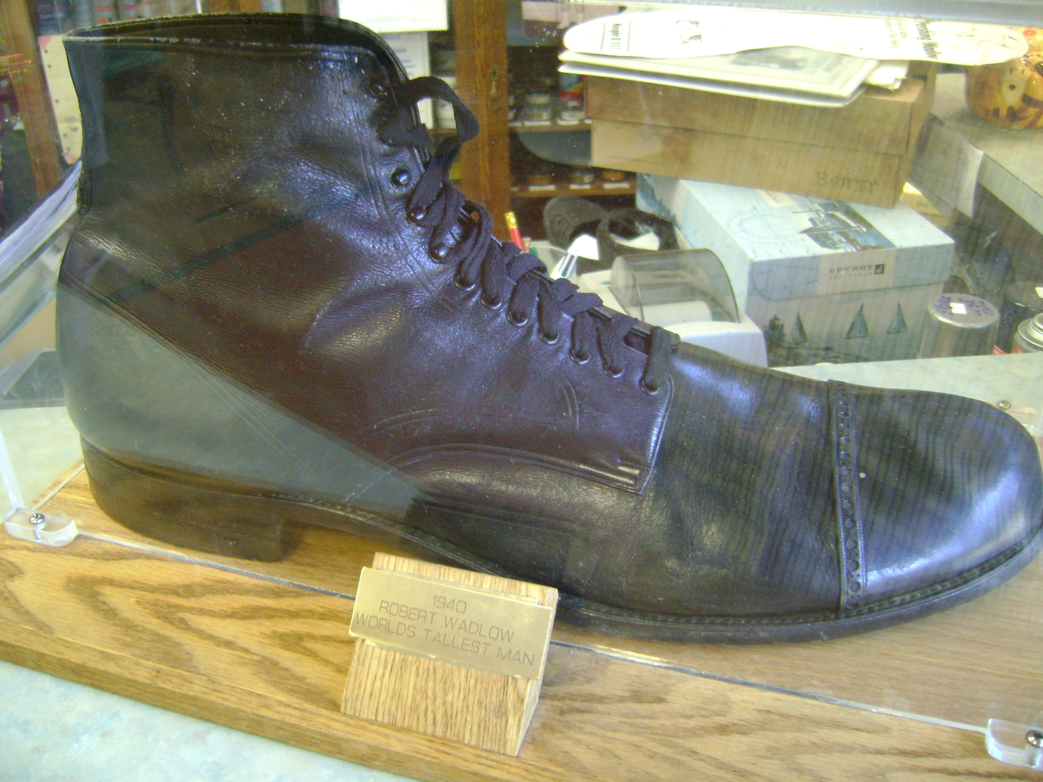 Robert Wadlow shoe located at Snyder Shoes in Manistee, Michigan